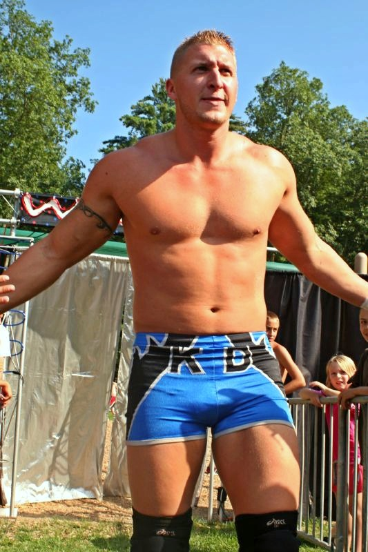 Professional wrestler Kenny Dykstra (Ken Doane) making his way to the ring at a World Wrestling Alliance show on August 4, 2009